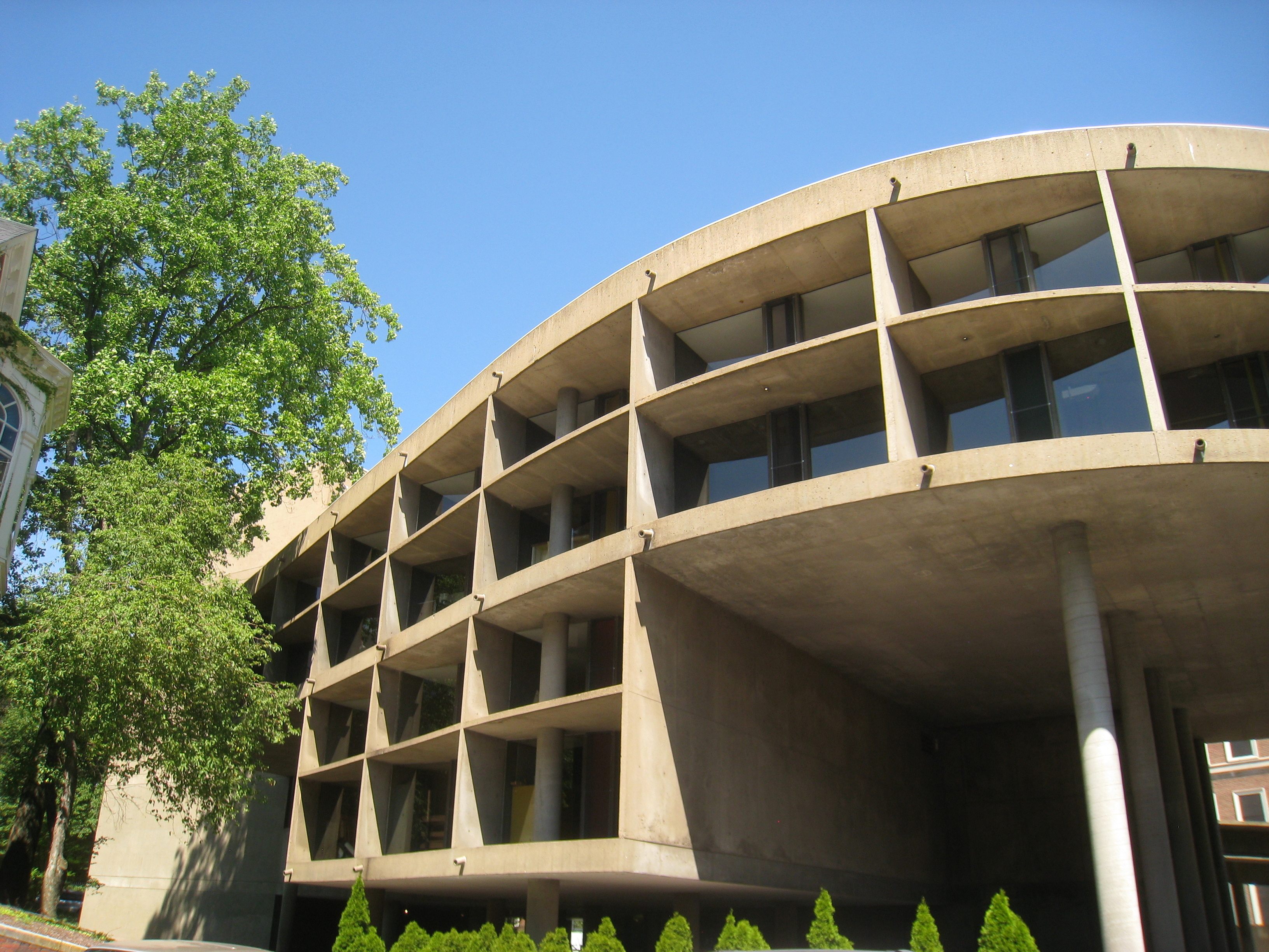 Carpenter Center, Harvard University, Cambridge, Massachusetts, USA.